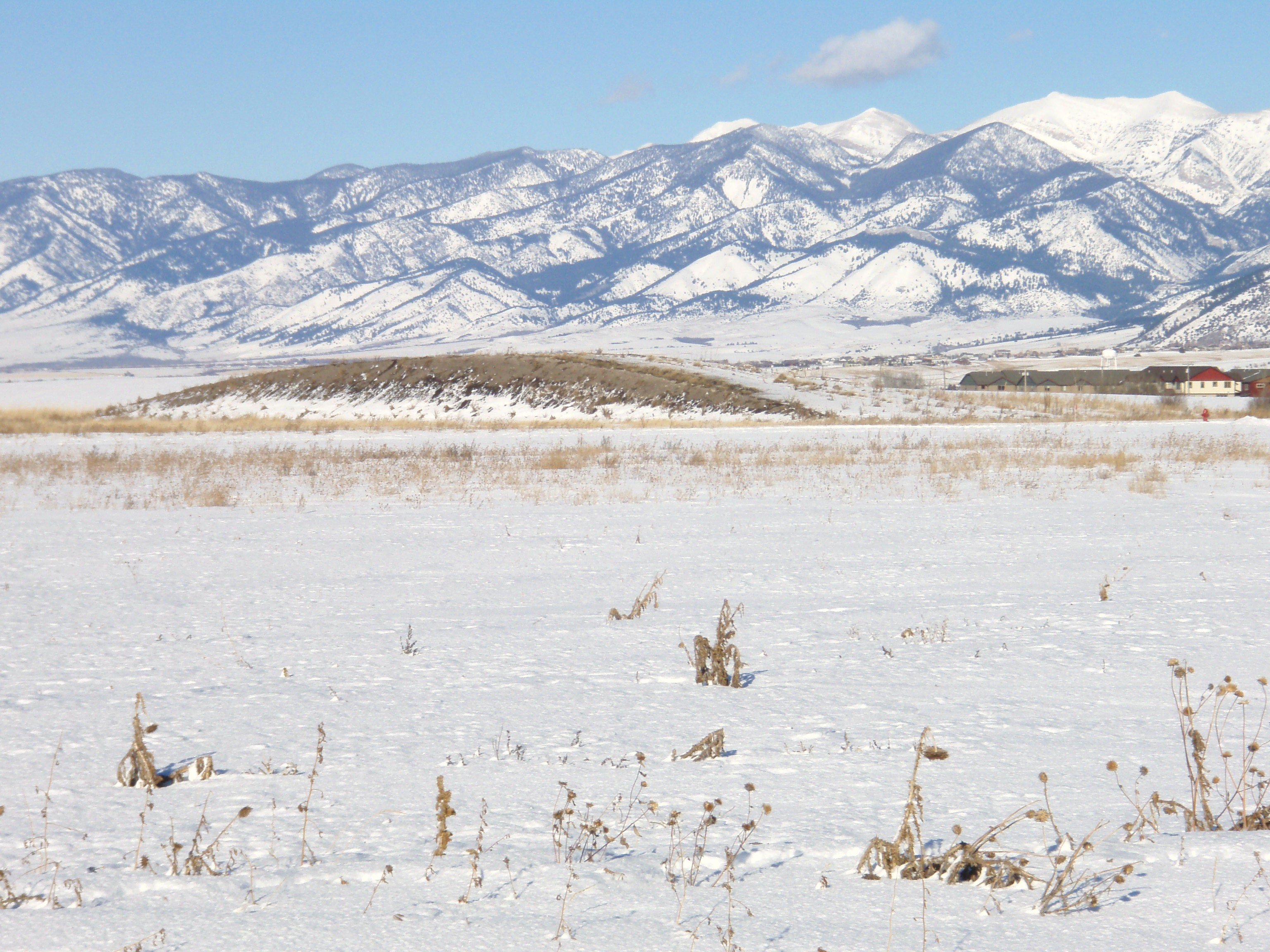 Bridger Mountains as seen from Bozeman, Montana, January 2009